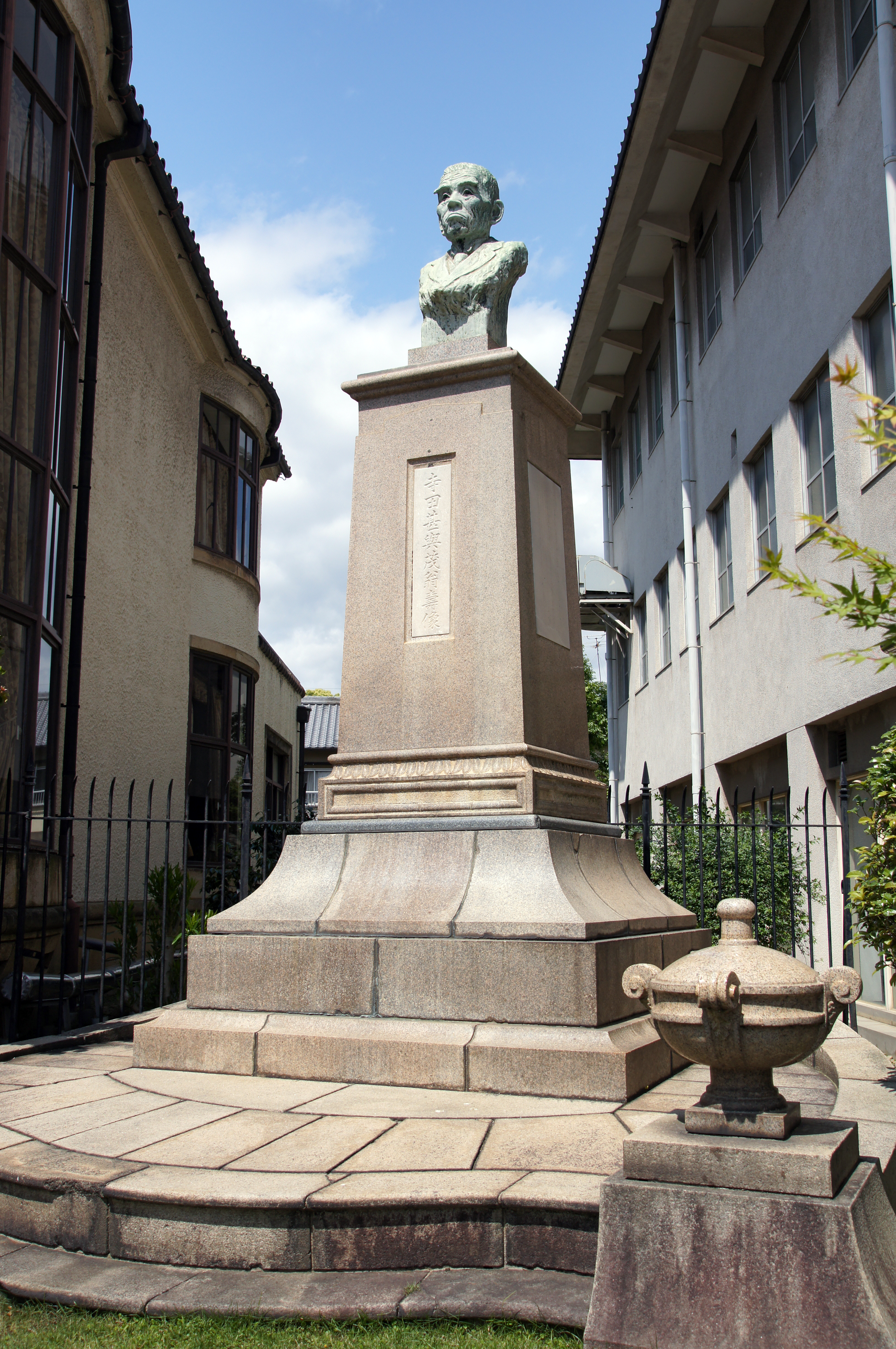 Kishiwada municipal hall "Jisen-kaikan" in Kishiwada, Osaka prefecture, Japan